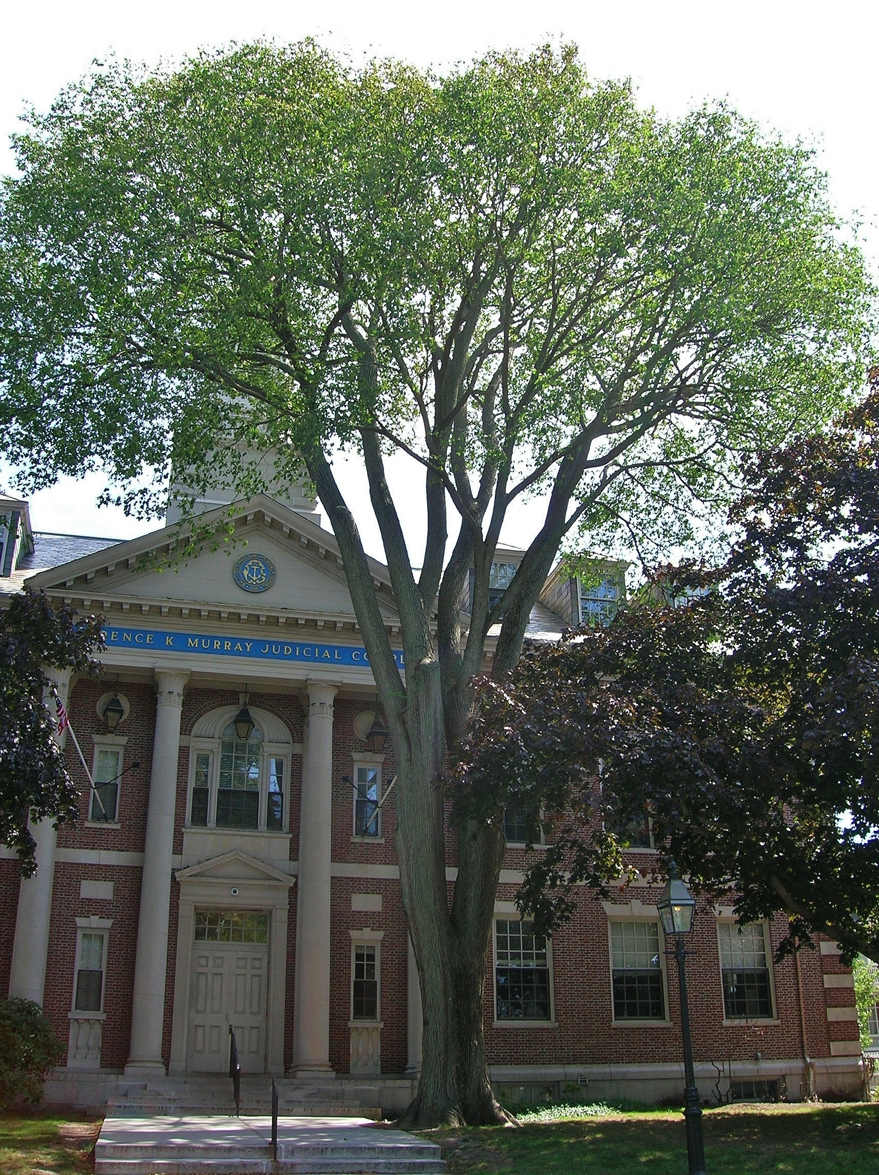 Photograph of an American elm tree in front of the Florence K. Murray Courthouse in Newport, RI (August 2015).